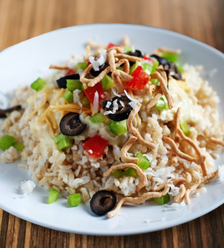 Serving Suggestion